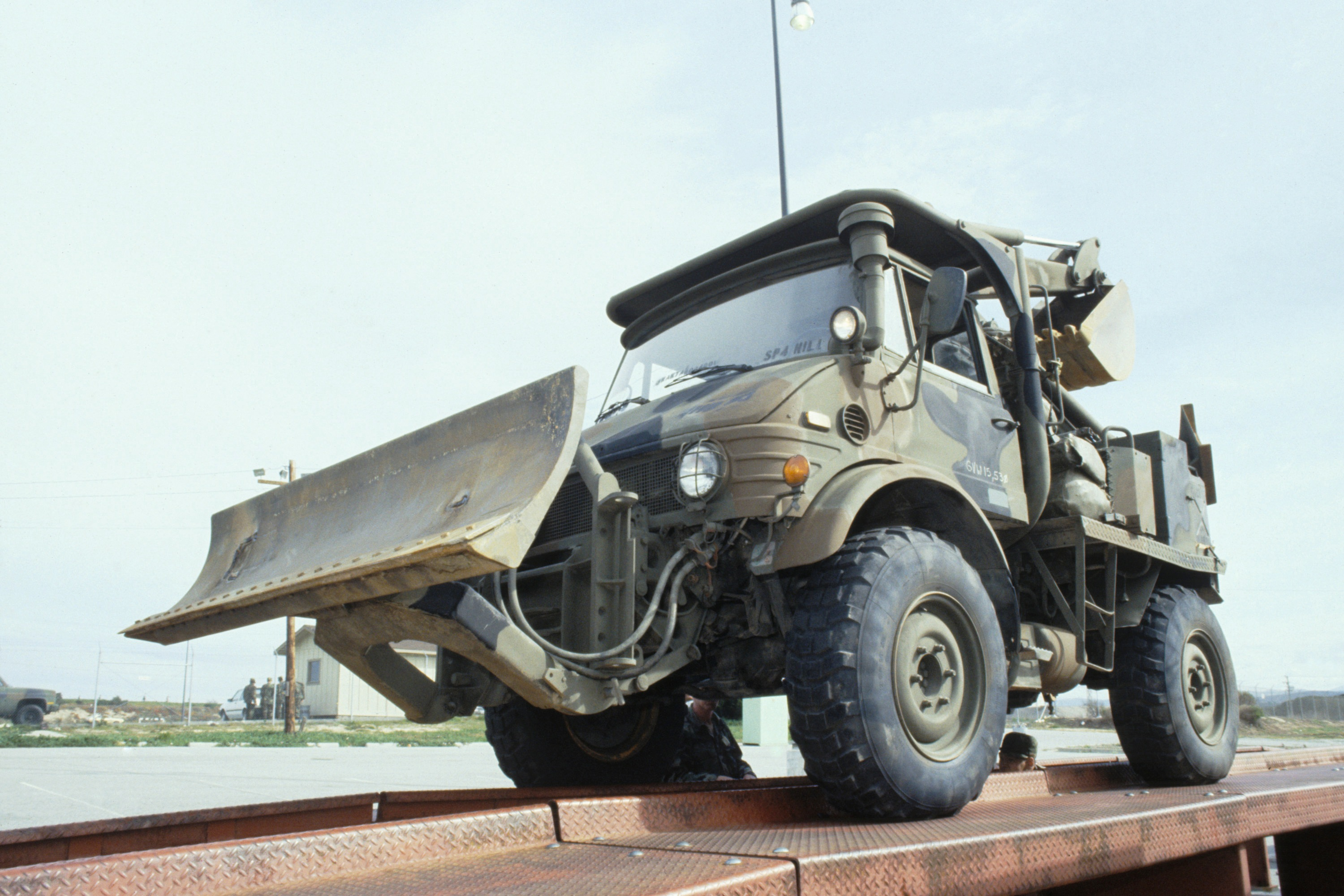 A Unimog 4x4 engineering vehicle equipped with a dozen blade is loaded for shipment to South Korea for the joint US/South Korean Exercise TEAM SPIRIT '87.